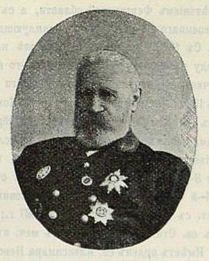 Statesman of the Russian Empire, Apukhtin, Aleksandr Lvovich.